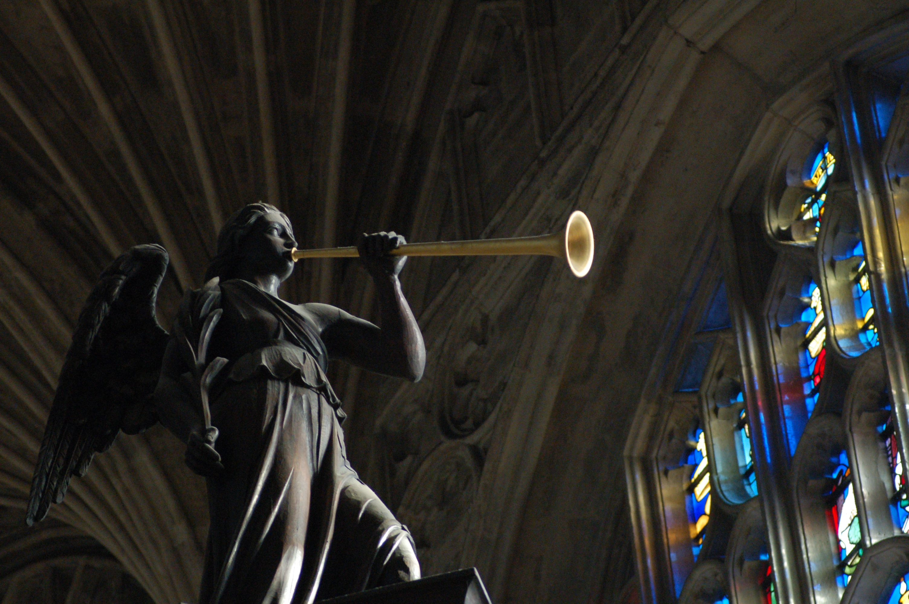 One of the two angels on top of the organ case, King's College Chapel, Cambridge